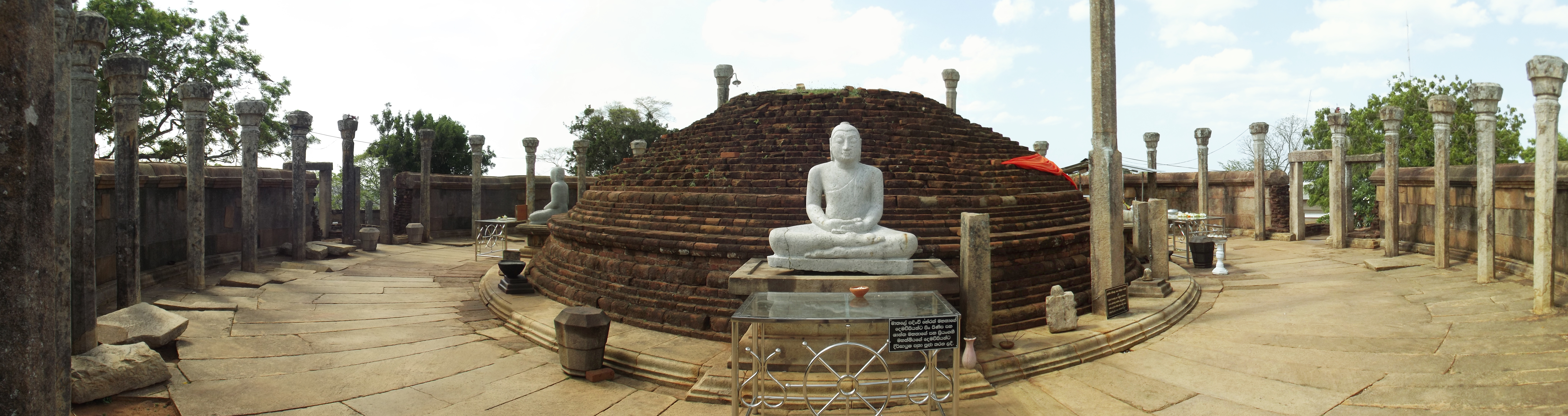 Girihadu Seya